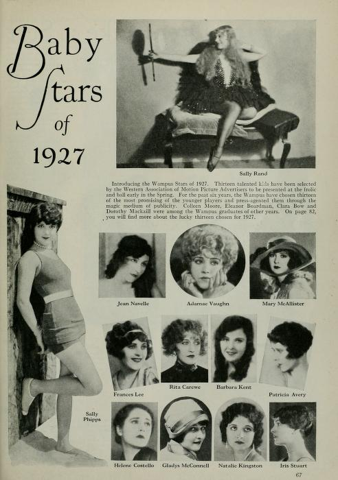 WAMPAS Baby Stars 1927: Sally Rand, Sally Phipps, Jane Navelle, Adamae Vaughn, Mary McAllister, Frances Lee, Rita Carewe, Barbara Kent, Patricia Avery, Helene Costello, Gladys McConnell, Natalie Kingston, Iris Stuart.